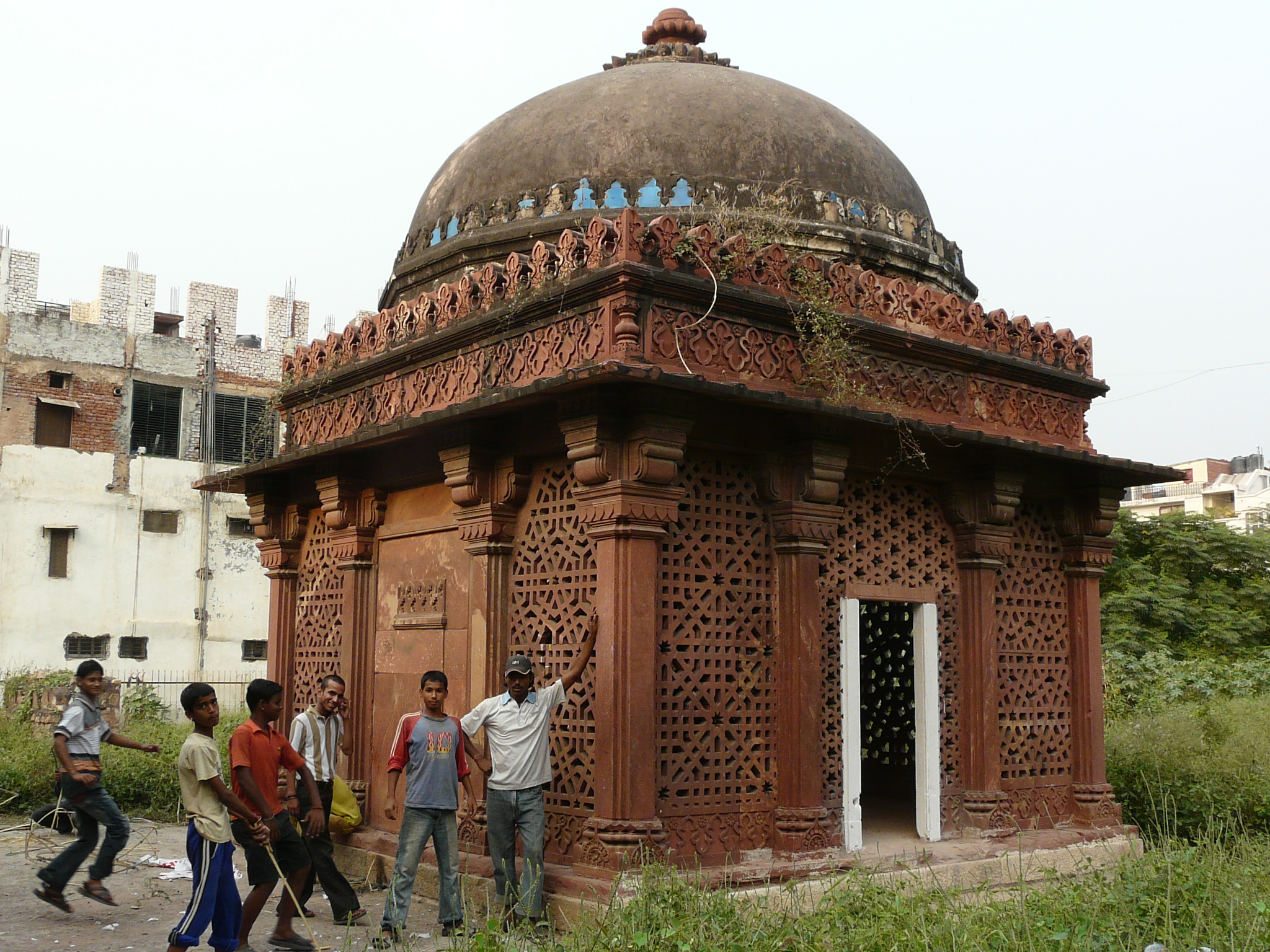 The Tomb near Sadhana Enclave